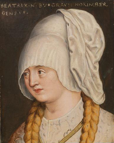 Beatrice of Nuremberg, duchess of austria